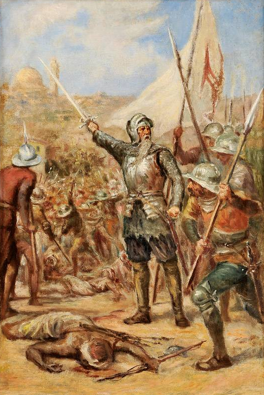 The Conquest of Malacca, 1511, by Ernesto Condeixa. Study for the artwork in the Military Museum, Lisbon.